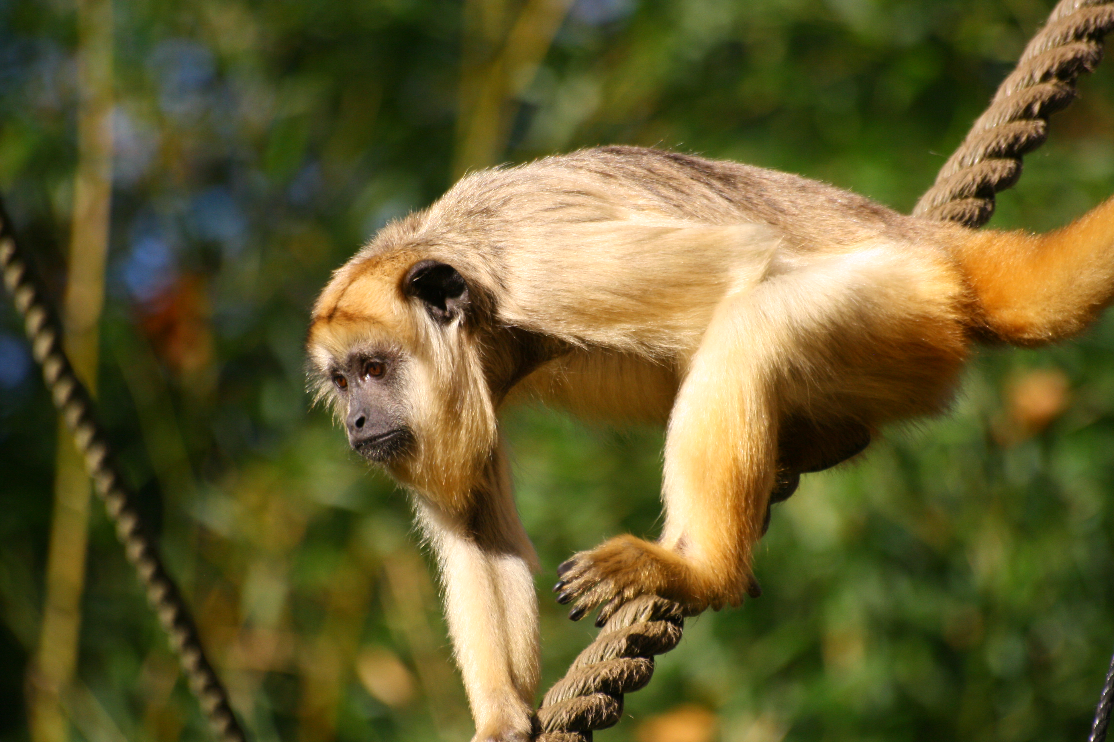 Black Howler Monkey in the Apenheul in Apeldoorn, Netherlands.